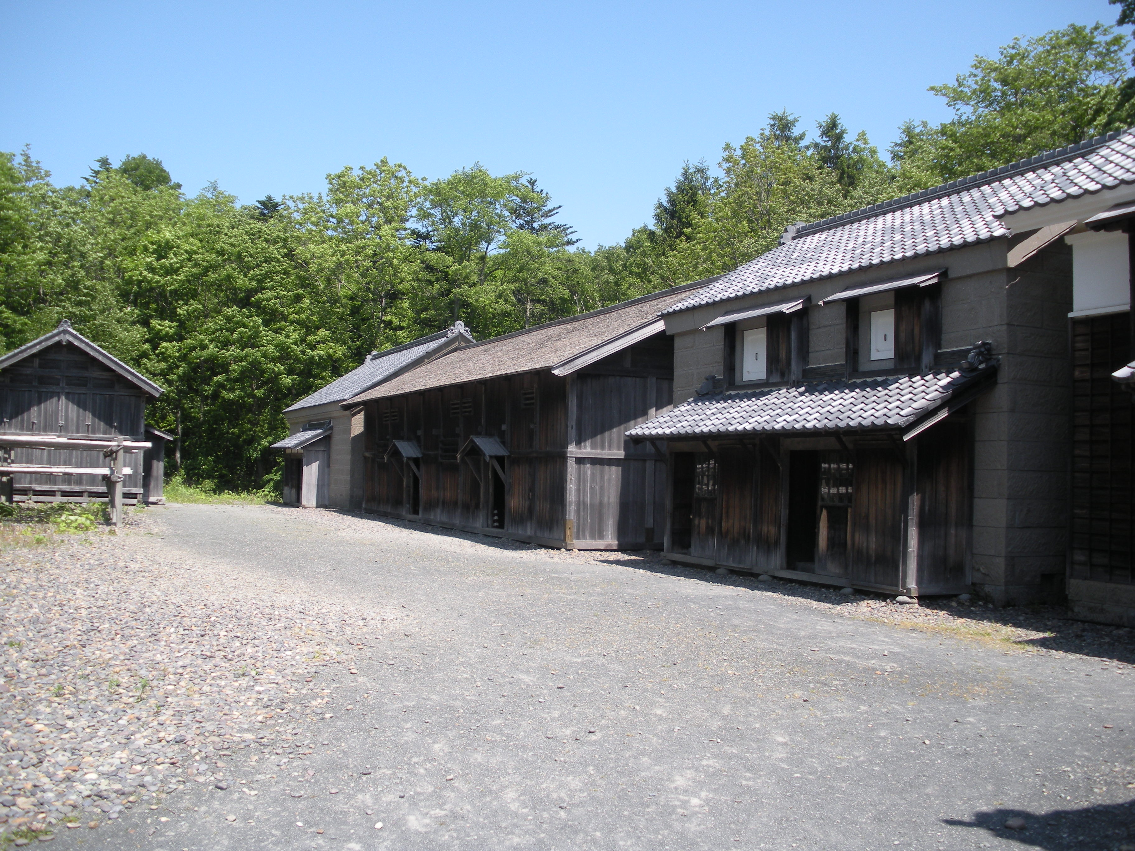 Japanese Pacific herring Fishermans house"Nishin-Goten" Warehouse Historical Village of Hokkaid. Atsubetsuch-konopporo, Atsubetsu-ku, Sapporo, Japan.